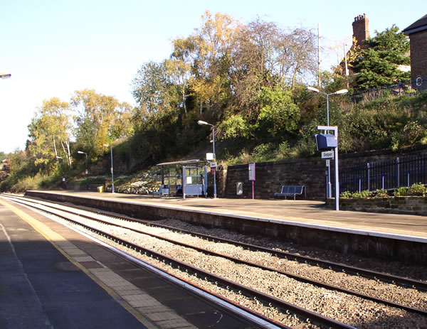 Description: Belper station, 2005 Source: Photograph by User:Chevin Date: 15, November, 2005